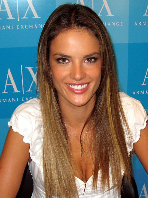 Brazilian fashion model Alessandra Ambrosio at Armani A/X Meet and Greet, June 9, 2007, New York City